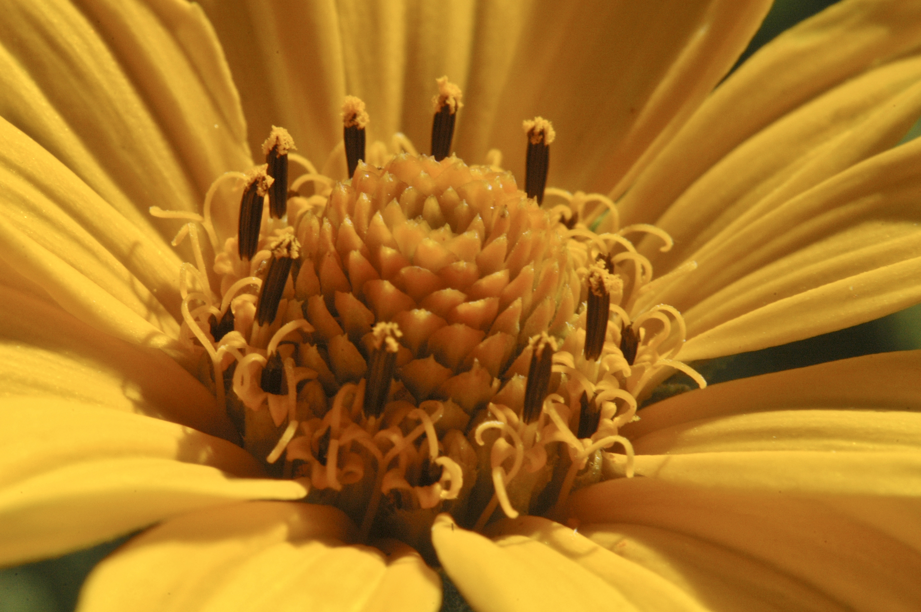 close up image of Heliopsis helianthoides FALSE SUNFLOWER at the James Woodworth Prairie Preserve - a single bloom showing ray flowers fertile, this is, they have a small, forked pistil at the base (not present in the true Sunflowers). Rays fertile, this is , they have a small, forked pistil at the base (not present in the true Sunflowers).